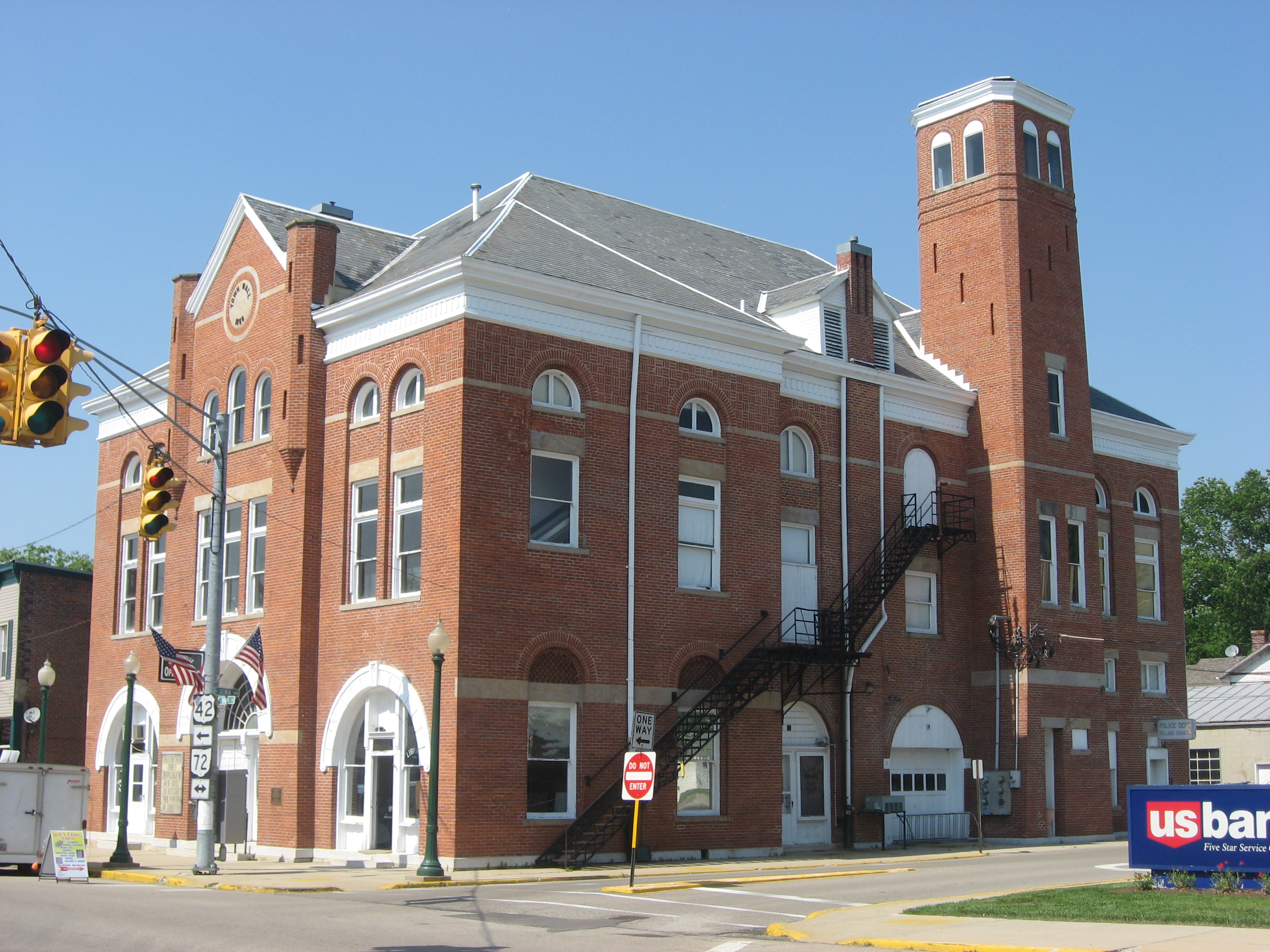 Front and southern side of the Cedarville Opera House, located at 78 N. Main Street (U.S. Route 42) in Cedarville, Ohio, United States. Built in 1888, it is listed on the National Register of Historic Places.